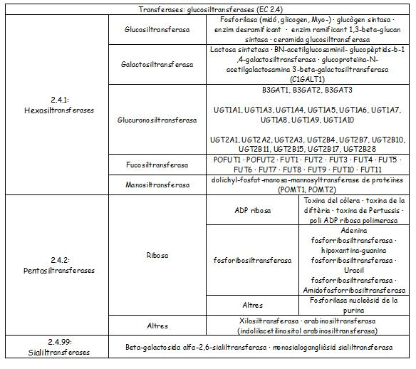 Taula